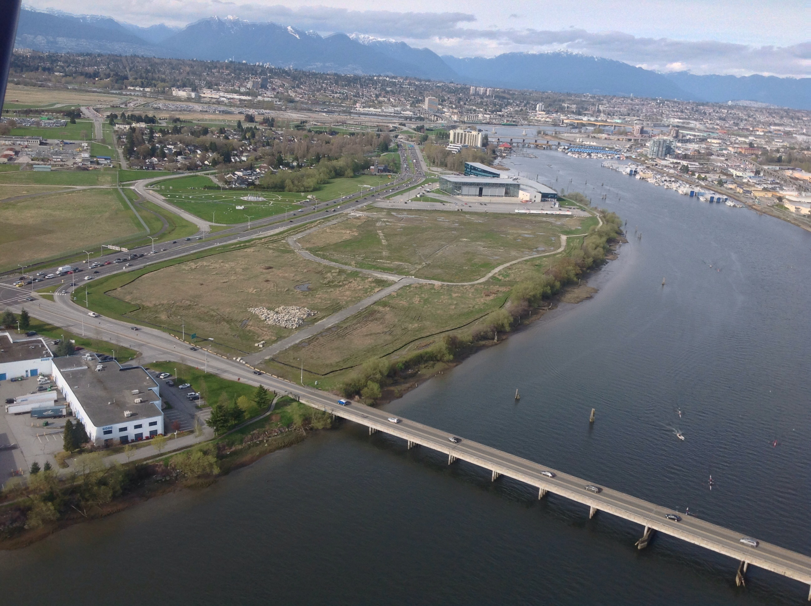 North-facing aerial view of Dinsmore Bridge over the middle arm of the Fraser River in Richmond, British Columbia connecting Lulu Island with Sea Island